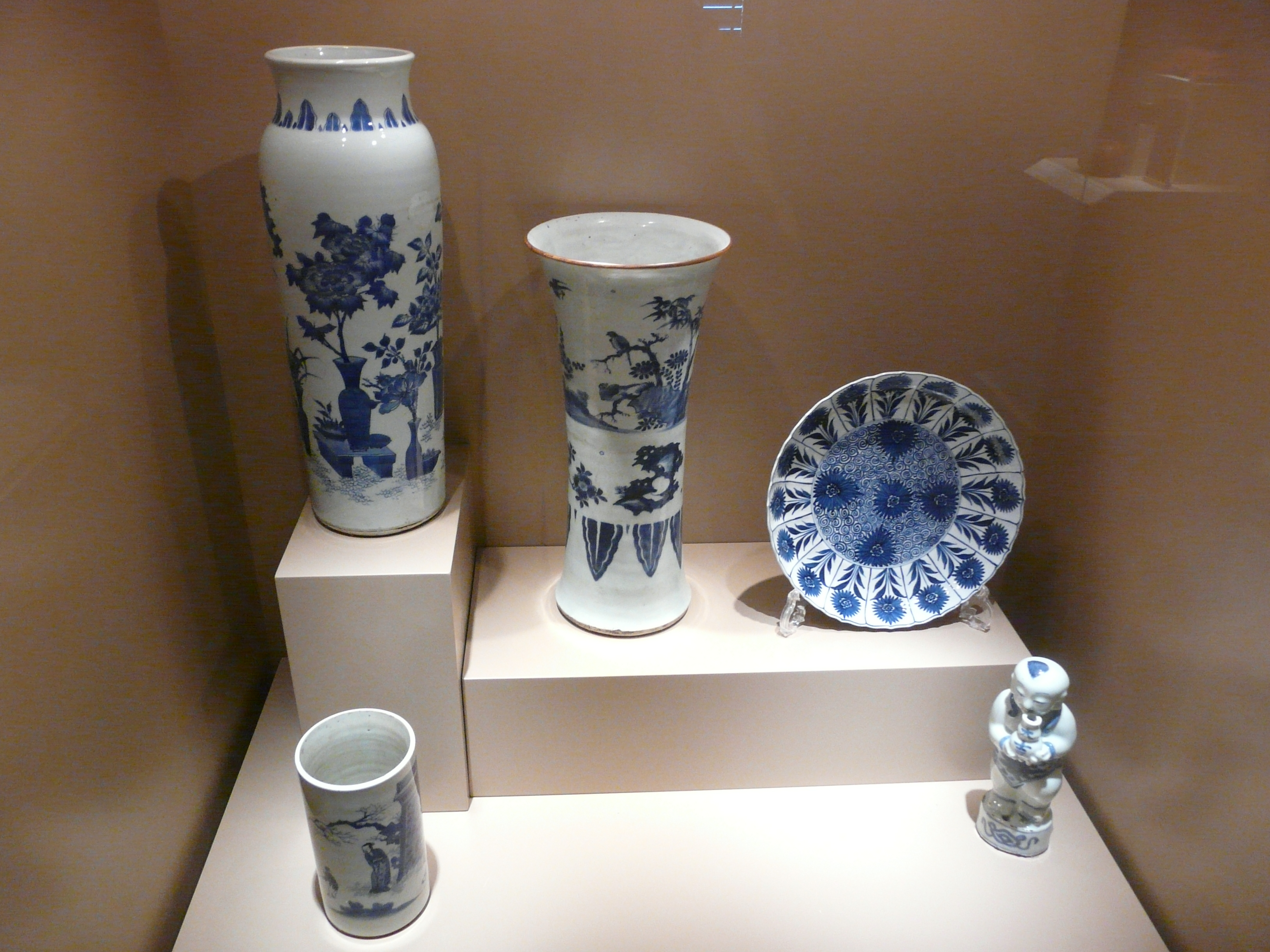 Museum of Asian art of Corfu. Corfu town.Corfu, Greece.